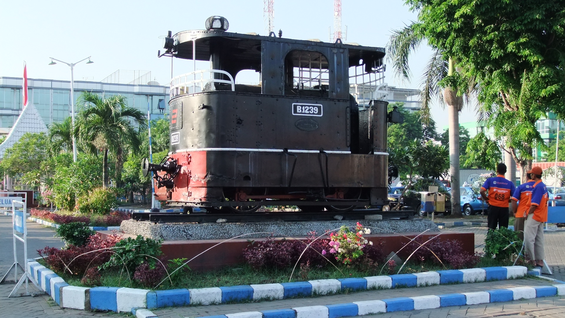 Steam locomotive B1239, Pasar Turi Station, Surabaya